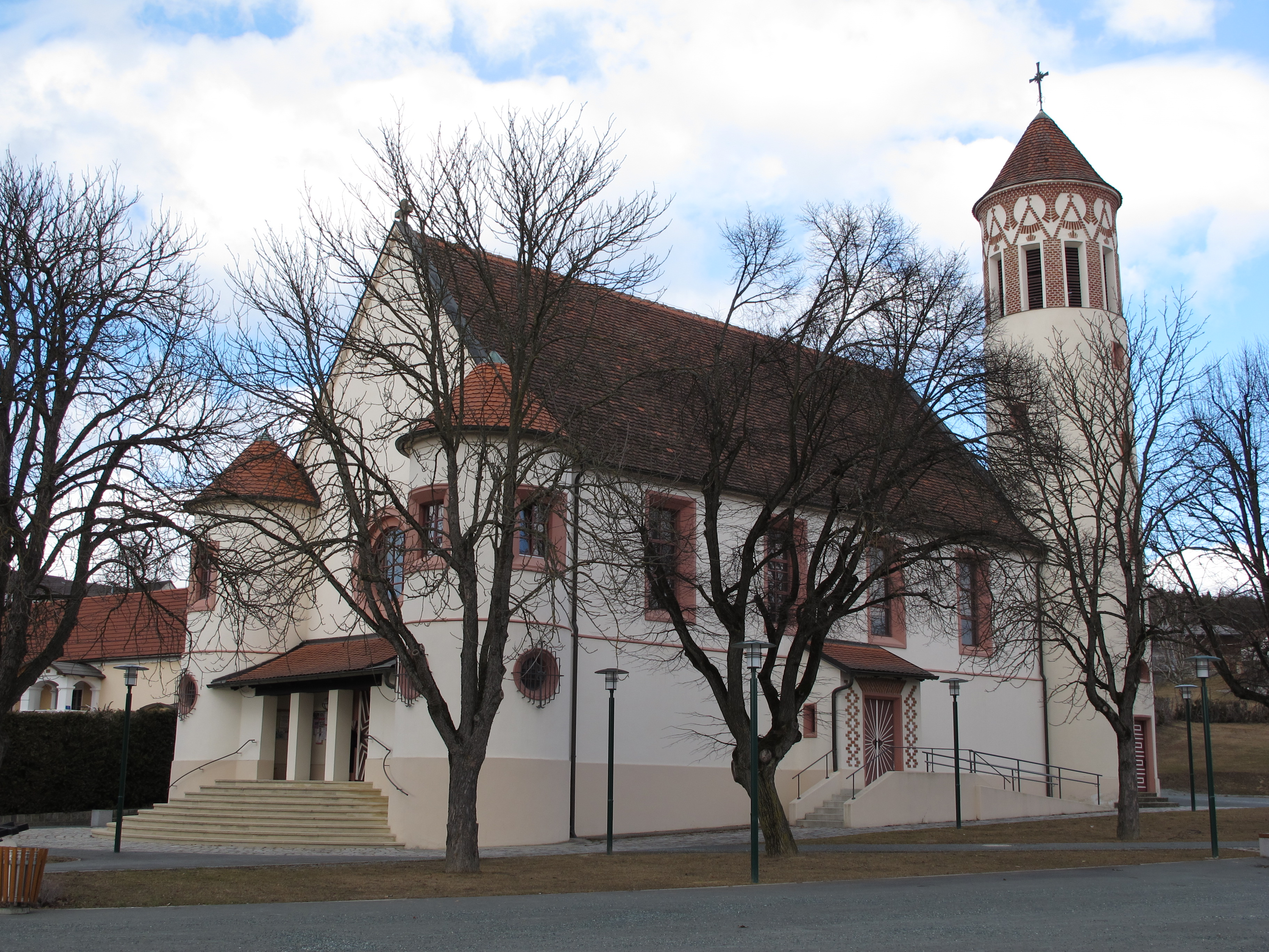 Pfarrkirche Güttenbach